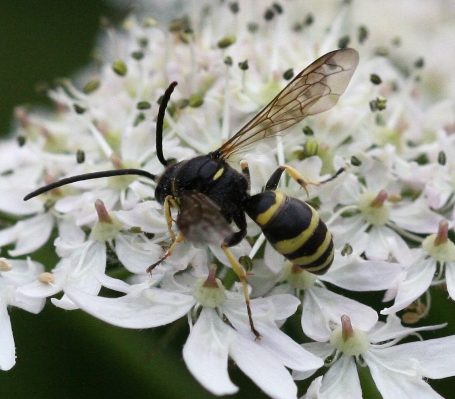 Healaugh, Yorkshire, England. Thanks to Bernhard Jacobi and Tim@strumpshawfen for their identification help. Ref: Compare with